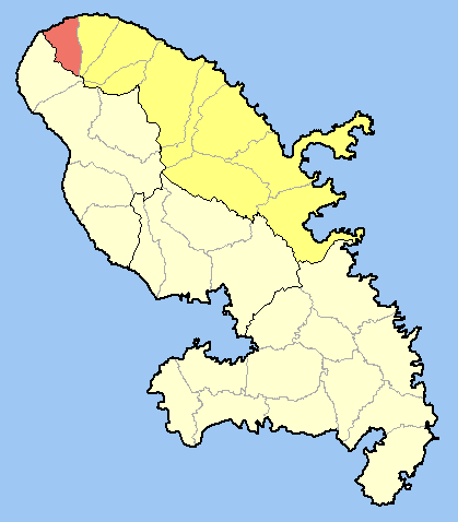 Location of Frand'Rivière within Martinique